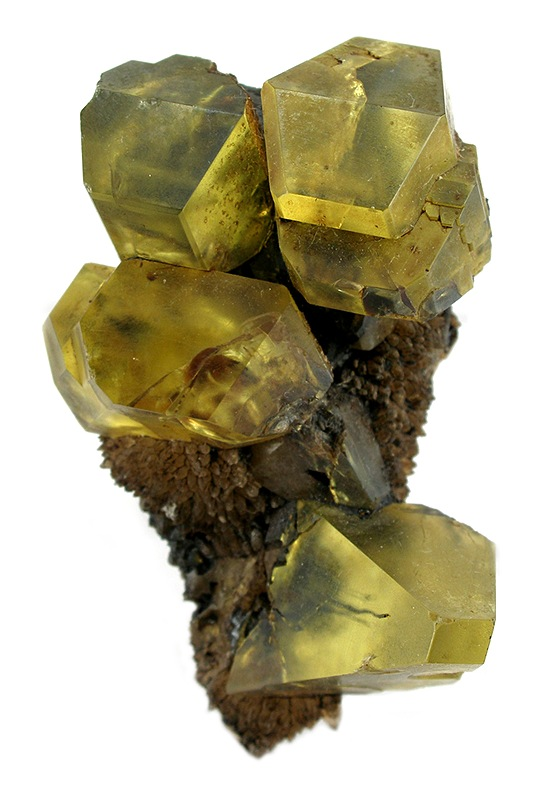 Sulphur Locality: Caltanissetta Province, Sicily, Italy (Locality at ) Size: small cabinet, 7.5 x 4.2 x 3.5 cm Sulfur It is difficult to find sulfur specimens today with discrete crystals like this. Several, well formed, translucent, sulfur crystals are emplaced on matrix. While the crystals all exhibit the classic, rich, yellow color, all have minor bituminous inclusions (important proof they are real, and not man-made!). The largest crystal measures 3.3 cm in length. Considering the softness of sulfur, there are very few wilbers on the crystals. This is an incredibly complex specimen with both visual and crysatllographic appeal, of sulphur of a rare habit. I value it highly for all these reasons and I think that, of all the sulfurs out ther ein this size and price range that you might buy, this is one of the more unique and eyecatching.